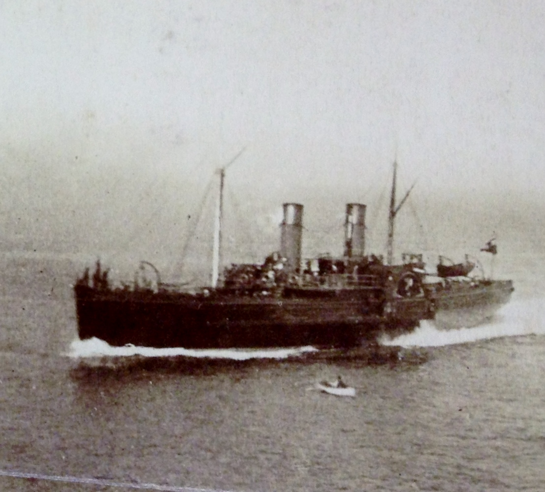 Douglas pictured approaching Douglas, Isle of Man.